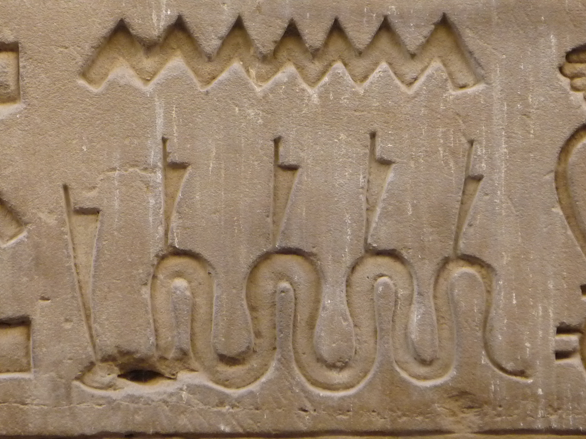 Wall relief of Apep, temple of Edfu, Egypt